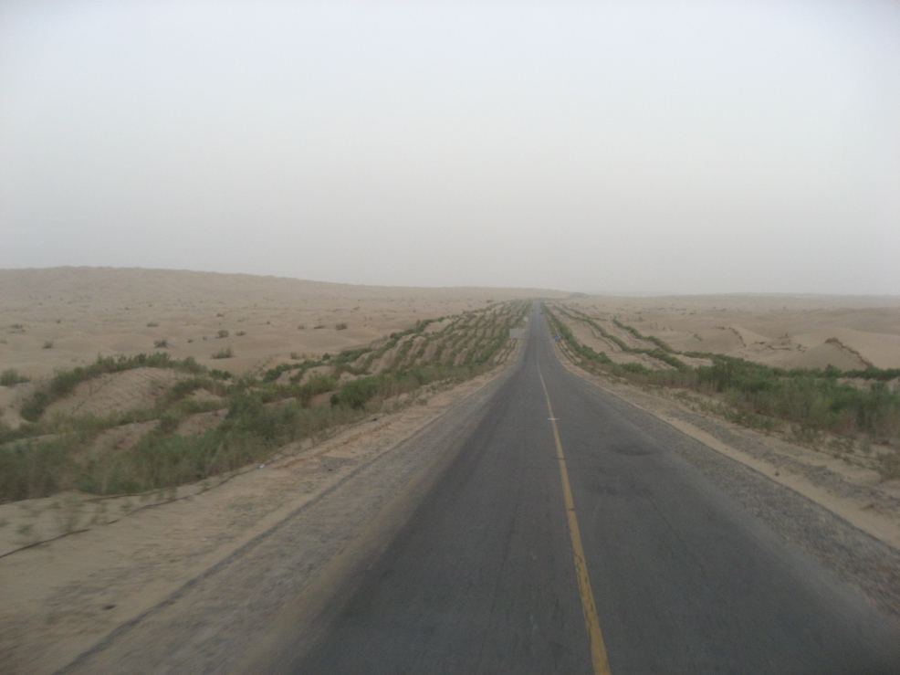 Tarim Desert Highway. Feel free to replace this with a better picture.